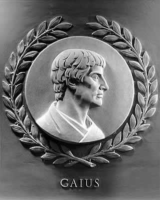 Gaius marble bas-relief, one of 23 reliefs of great historical lawgivers in the chamber of the U.S. House of Representatives in the United States Capitol. Sculpted by Joseph Kiselewski in 1950. Diameter 28 inches.